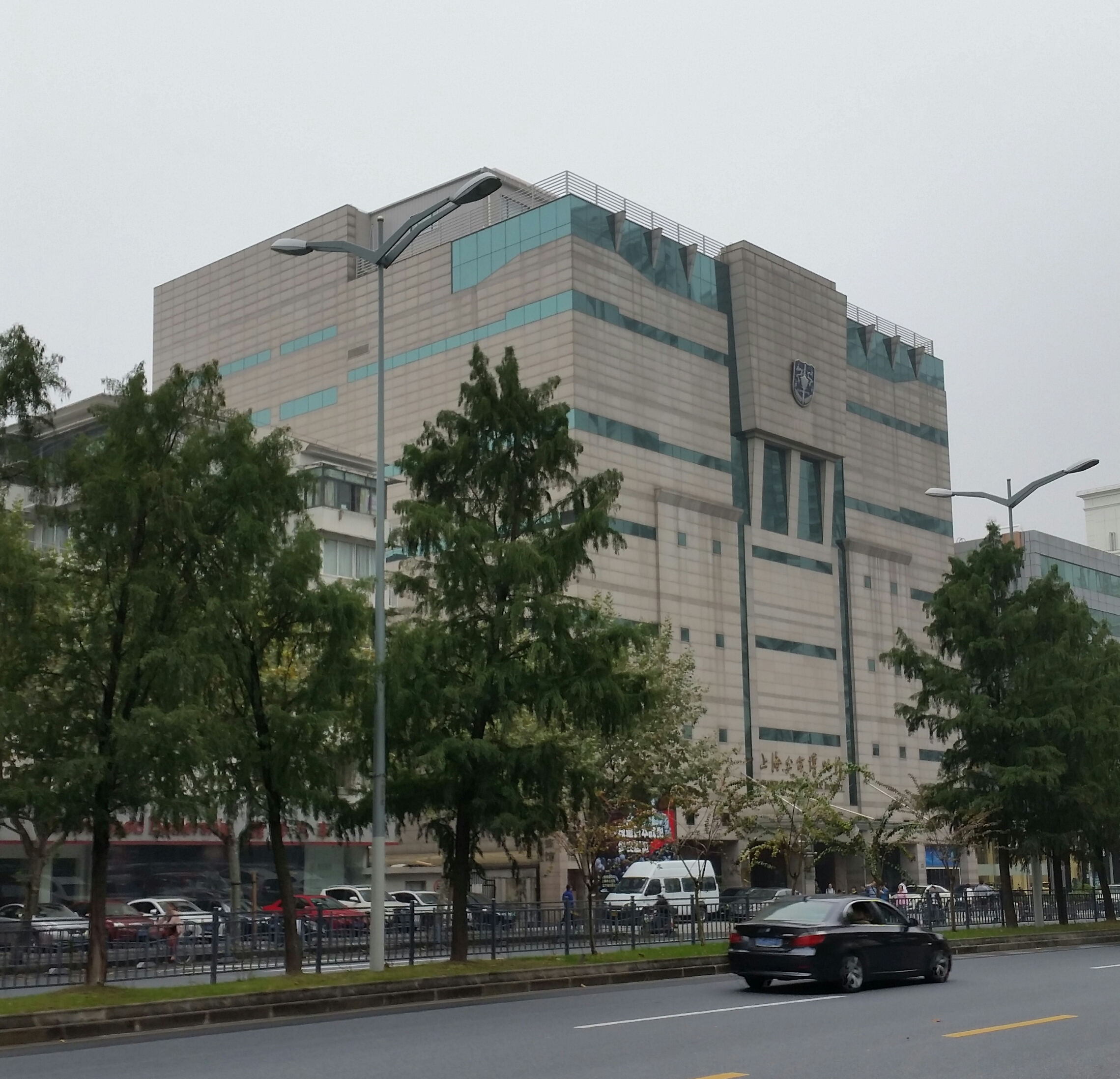 Shanghai Museum of Public Security中文（中国大陆）: 上海公安博物馆